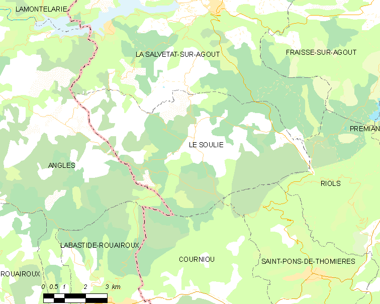 Map commune FR insee code 34305.png - Le Soulié